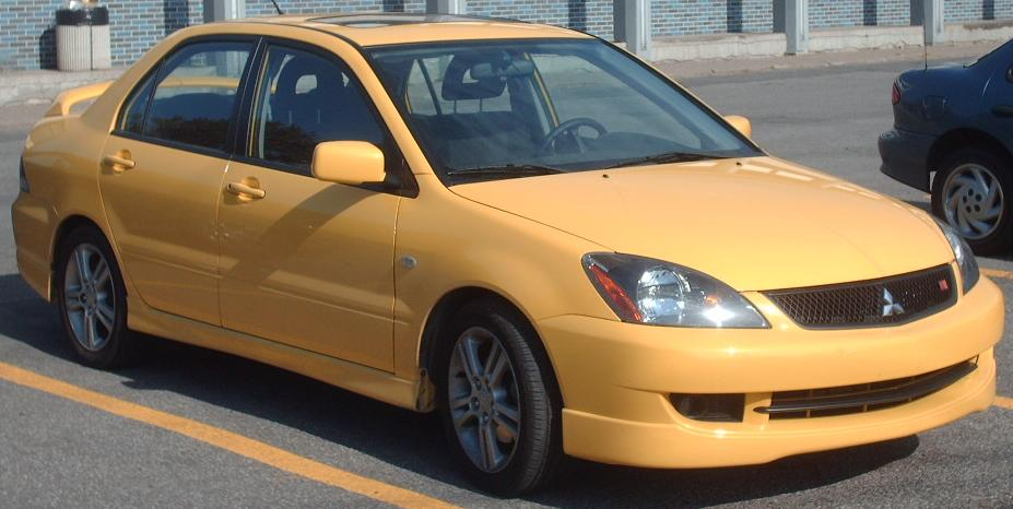 2006 Mitsubishi Lancer Ralliart photographed in Montreal, Quebec, Canada.